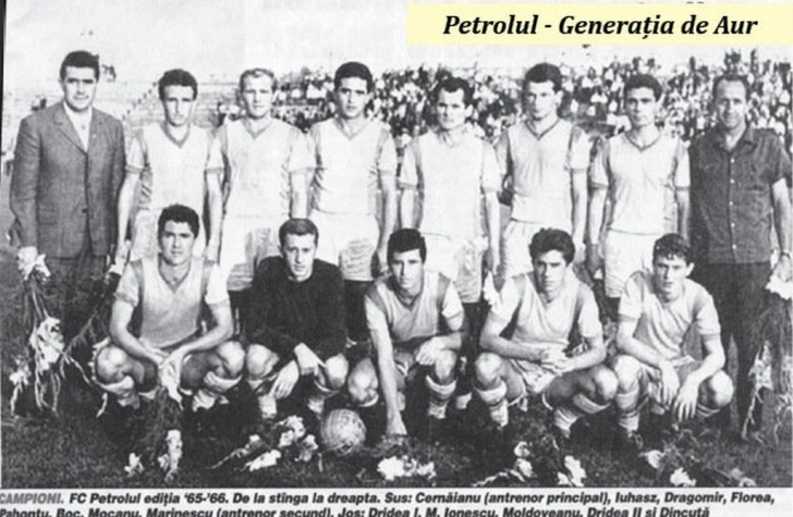 FC Petrolul Ploiești squad 1965-66 Divizia A season.